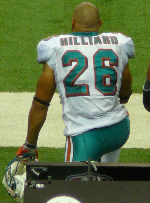 If used somewhere other than Wikipedia, Nelson, by name.